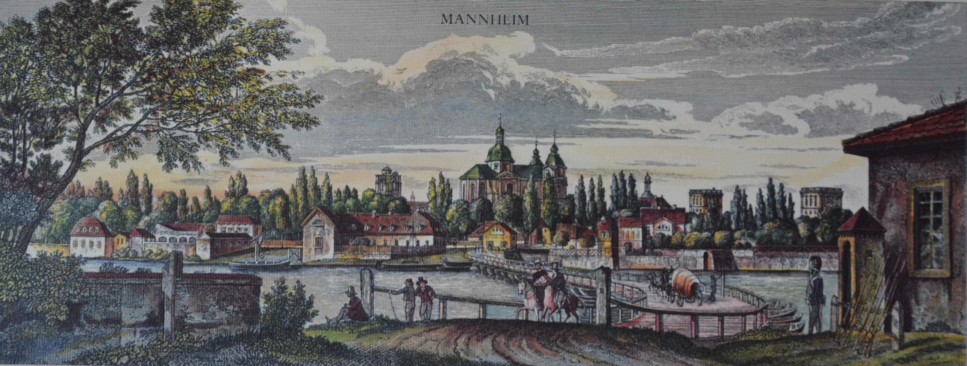 Mannheim 1846, by E.Schnell